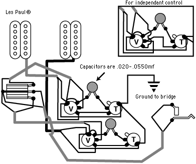 A picture of the wiring diagram for a Les Paul style guitar.